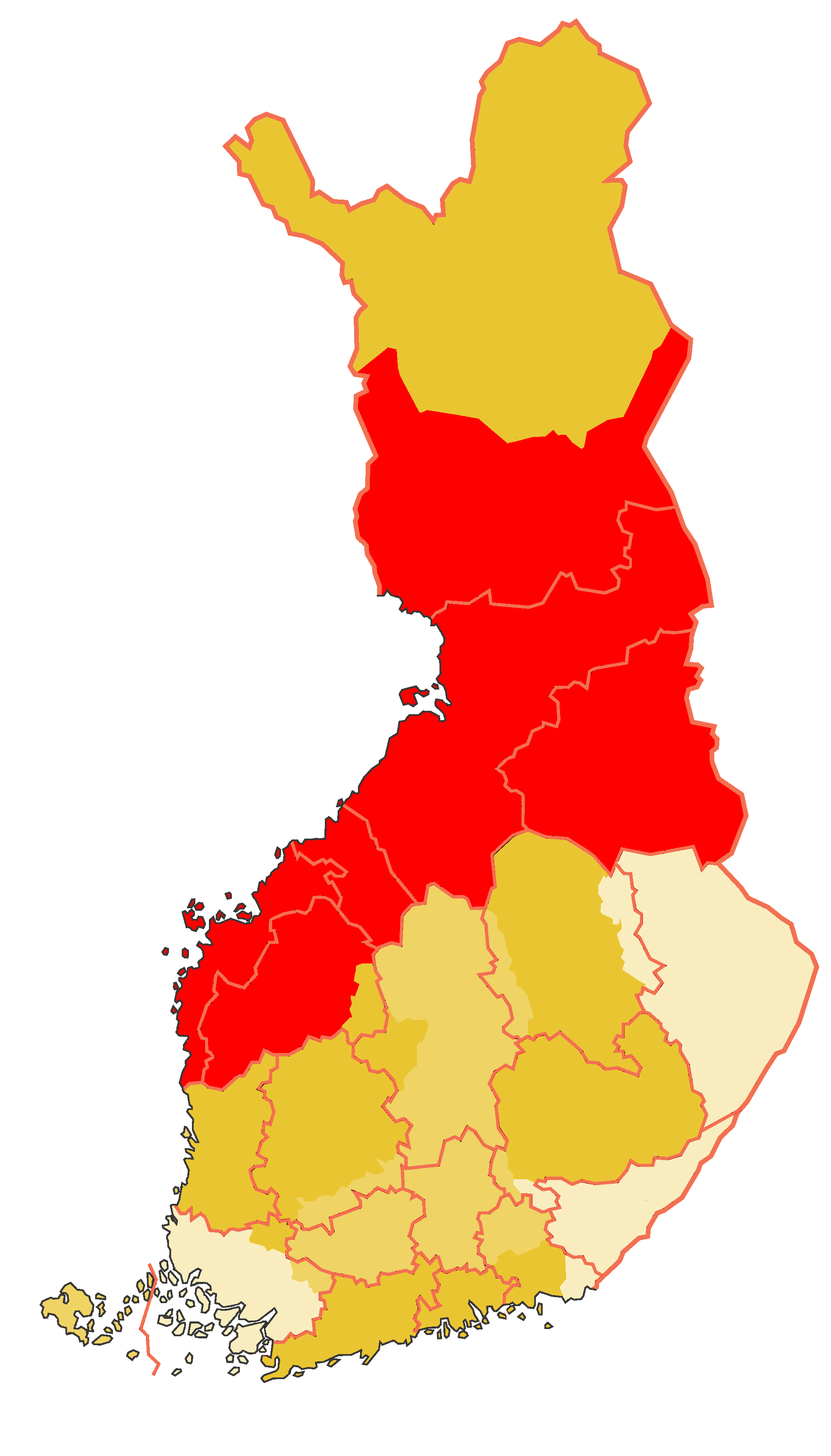 Historical province of Ostrobothnia in Finland